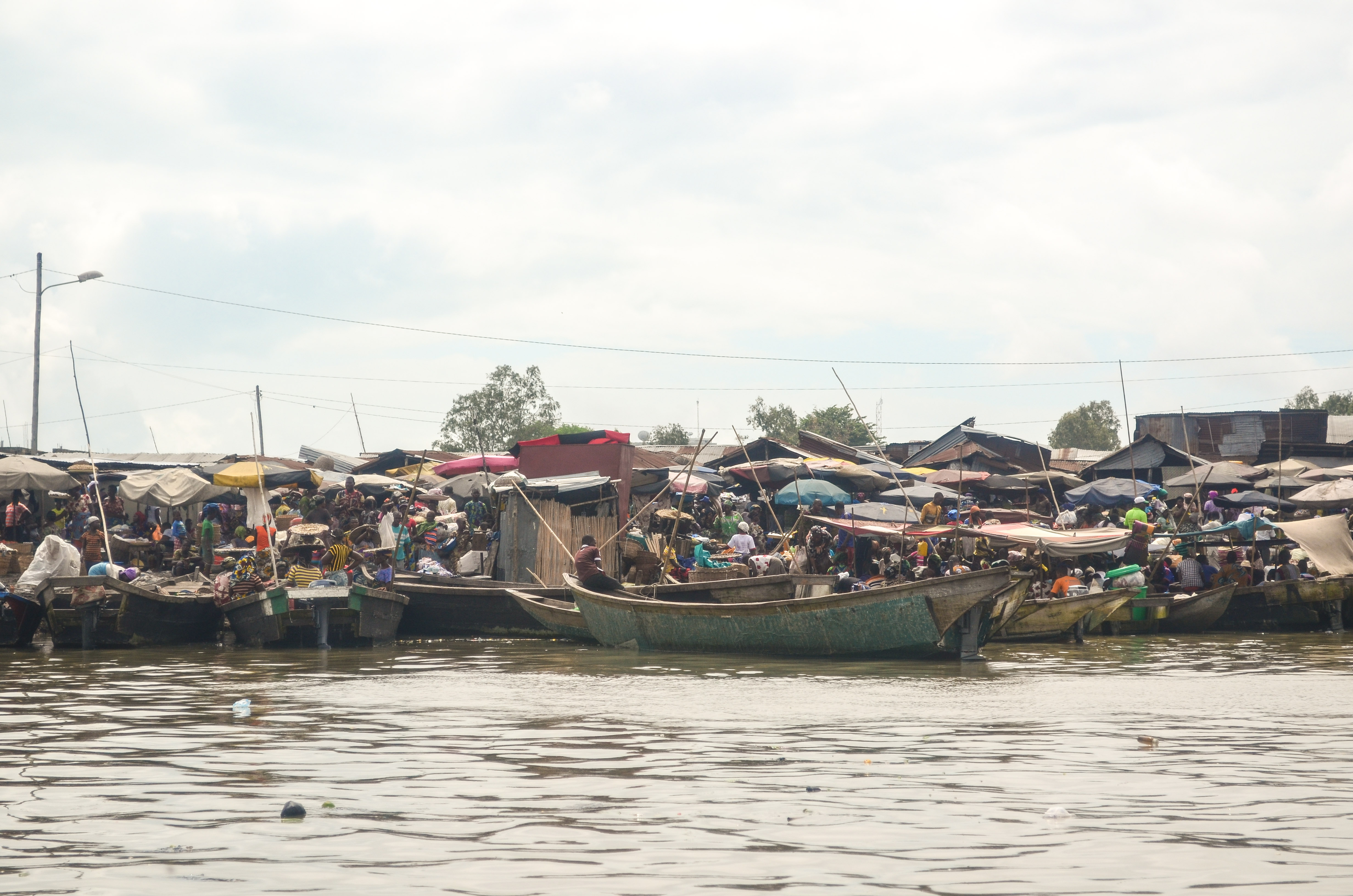 Taken on 05 October 2013 in Benin around Ganvié : Cycling Africa beyond mountains and deserts until Cape Town